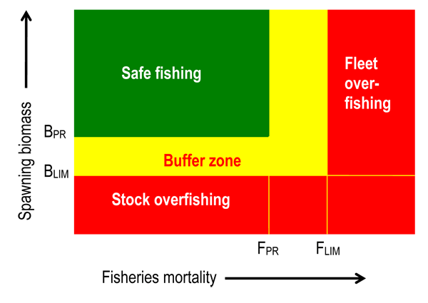 Visualization of a Harvest Control Rule (HCR) specifying when a rebuilding plan is mandatory in terms of precautionary and limit reference points for spawning biomass and fishing mortality rate.